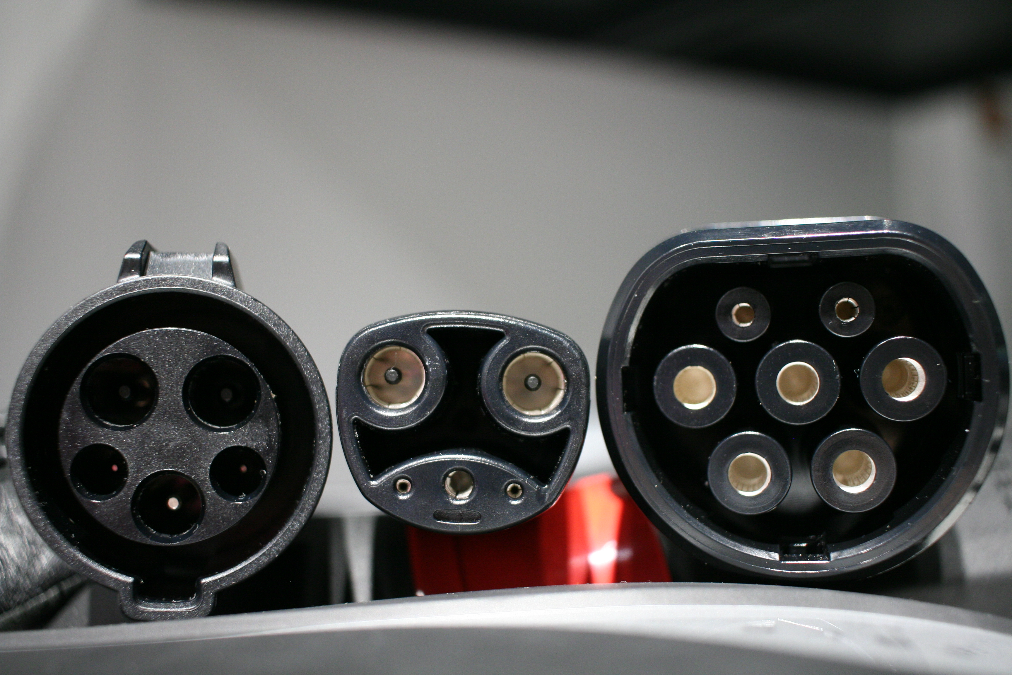 Standardised SAE J1772 inlet (used in North America; left); proprietary Tesla02 outlet (used in North America; centre). Tesla IEC Type 2 connector female outlet (used in Europe / Rest of World; right). (This image has more blur on the background and is not quite so aligned).